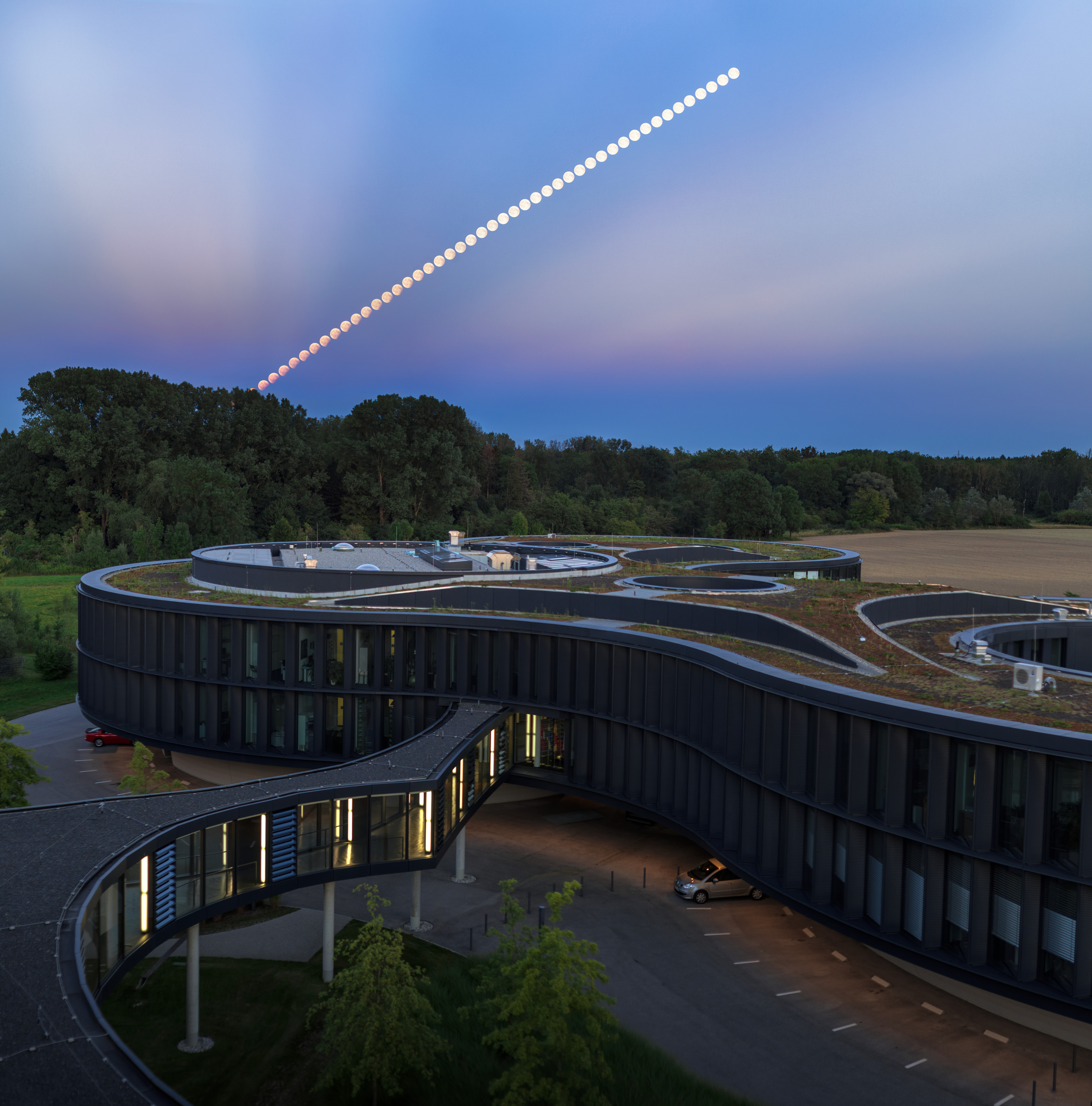 During the early evening of 7 August, a partial lunar eclipse was visible in the sky above the ESO Headquarters in Garching bei München, Germany. A lunar eclipse occurs when the Earth, Moon and Sun are aligned, and the Earth casts a shadow on the Moon. This time, only a small part of the Moon entered the Earth’s inner shadow, the umbra, but it still made for a stunning view. While observing from the rooftop of the ESO Headquarters building, ESO Photo Ambassador Petr Horálek captured the eclipse along with spectacular rays from the setting Sun behind him, known as anticrepuscular rays — a union of astronomical and atmospherical phenomena. The Picture of the Week shown here is a compilation of over 50 images of the eclipse, starting from the peak of the eclipse just as the Moon rose above the horizon, to the eclipse’s conclusion when the Moon was high in the sky. Horálek captured the eclipse near its peak in a second photo. The entire Moon is turned red by its light scattering through the Earth’s atmosphere. Meanwhile, the bottom right part of the full Moon blends into the sky having entered the umbra of the Earth’s shadow. Europe’s next lunar eclipse will be a total eclipse, visible on 27 July, 2018.